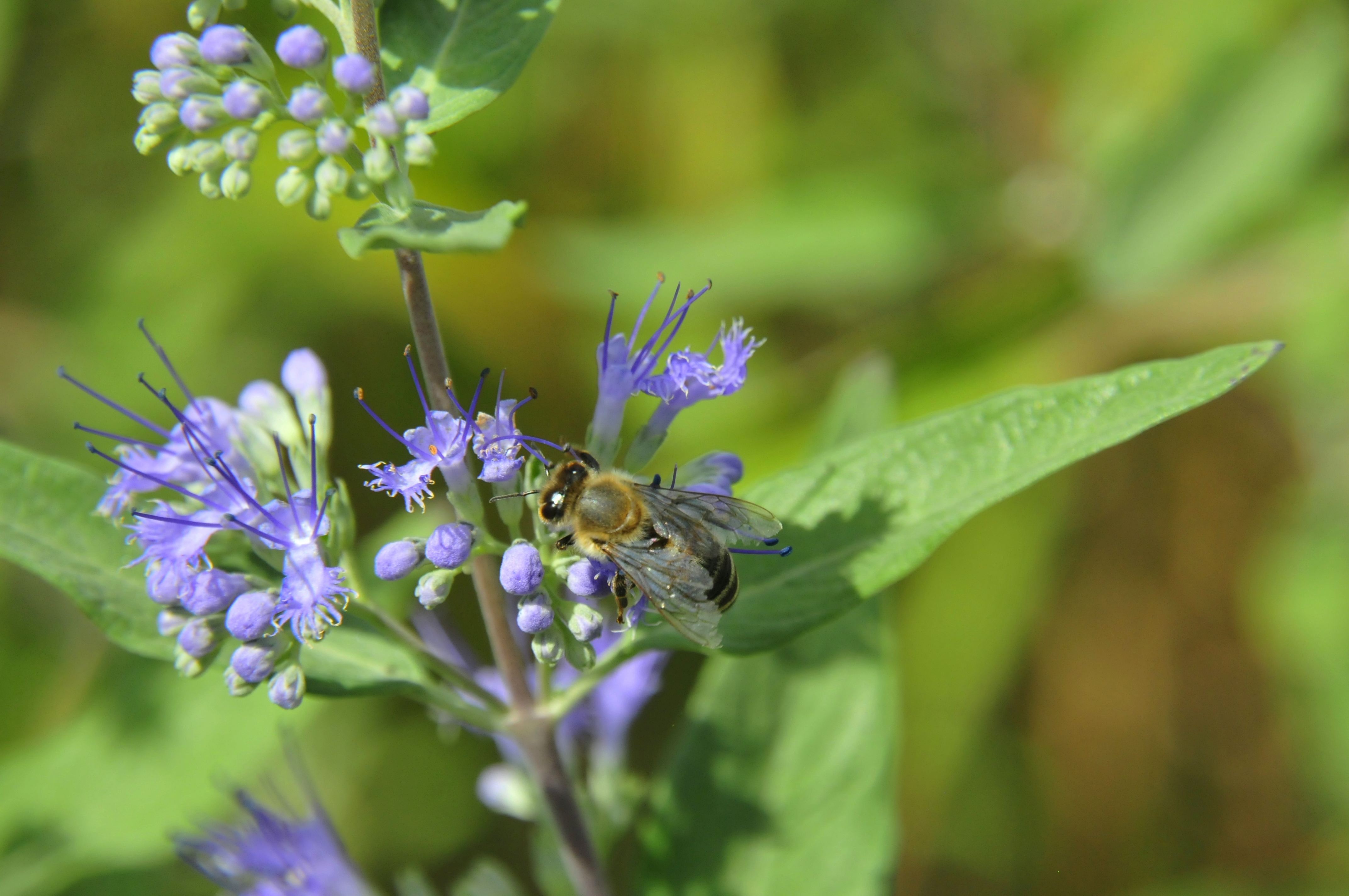 Caryopteris